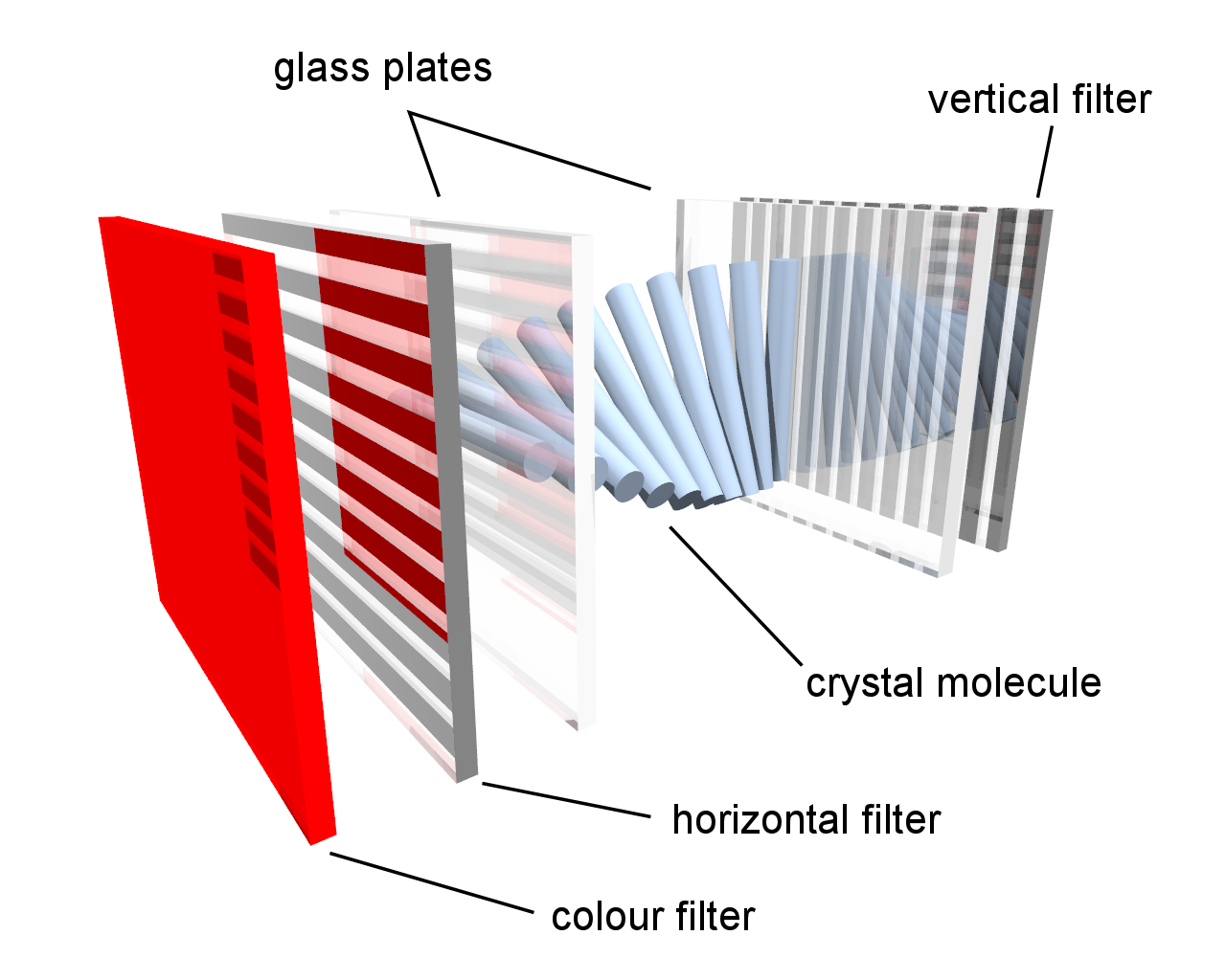 LCD subpixel. It was made using POV-Ray. The POV-Ray source file is released under GPL and can be downloaded from